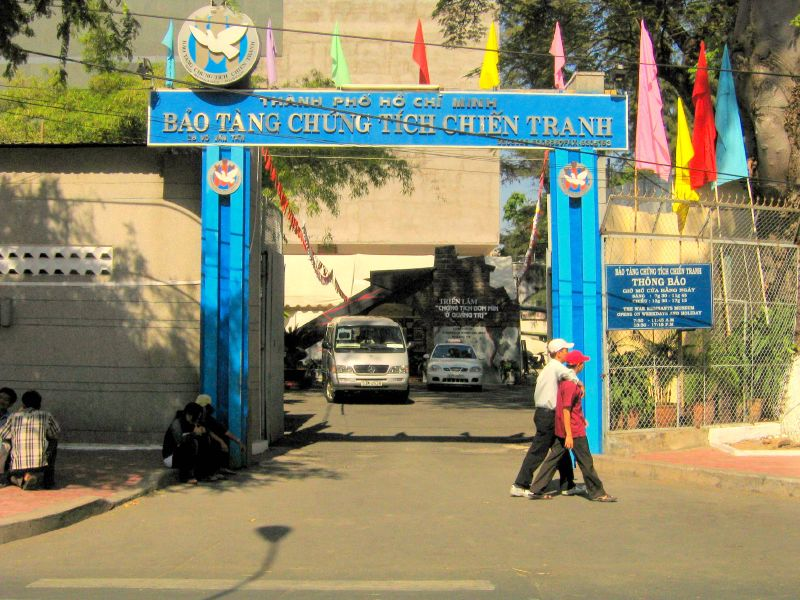 Entrance of the War Remnant museum in Hochiminh city, Vietnam.